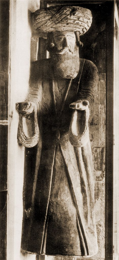 A photograph taken by Nicholas Marr's expedition team while excavating the city of Ani during the early 1900s showing a statue of Armenian King Gagik I Bagratuni. This image was originally printed in one of Marr's books, and is scanned from one of the many reproductions in Armenian journals and books.